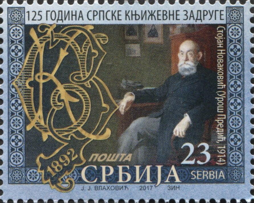 Srpska književna zadruga - 2017 post stamp of Serbia for 125th anniversary.